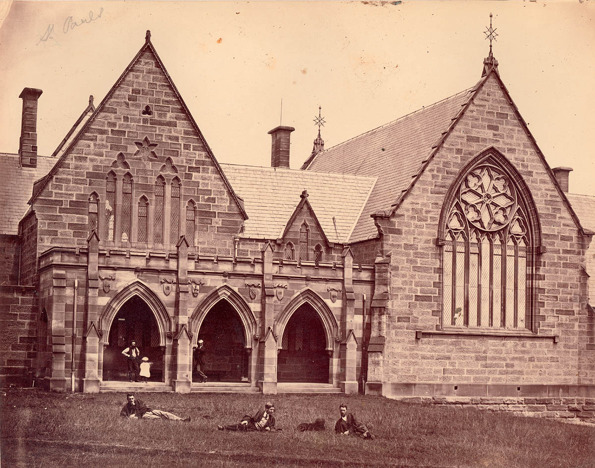 St Paul's College, University of Sydney, in 1870.